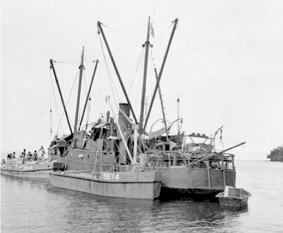 AWM caption : New Guinea: Papua New Guinea, Papua, Owen Stanley Range, Buna Area, Oro Bay Area. The motor ship Hokitika (S-130) of the Small Ships Section, United States Army Services of Supply, Southwest Pacific Area (USA SOS SWPA), unloading supplies onto barges SB46 and SB74. The Hokitika was acquired from Lend Lease, New Zealand, on 25 October 1942, and operated in Papua New Guinea waters. Initially Australian ships were requisitioned and chartered by the Small Ships Section. Construction of ships for USA SOS SWPA commenced in Australia in 1942. Approximately 3000 vessels were constructed, including freighters, launches, tugs, towboats, lighters, rescue and salvage boats and a large number of barges. An additional 4000 lifeboats and dinghies were built. Around 3000 Australians enlisted in the Small Ships Section during the Second World War. They were not inducted members of the US Army, but were civilians attached to the Army. They were often too young, too old or physically ineligible to serve in the Australian armed forces.